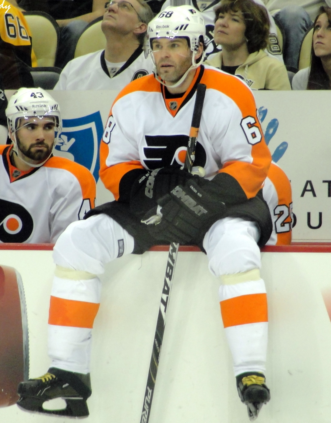 Jaromir Jagr of the Philadelphia Flyers during a break in the action in this December 29, 2011 game against the Pittsburgh Penguins at Consol Energy Center in Pittsburgh, PA. It was Jagr's first trip to Pittsburgh as a member of the Flyers.